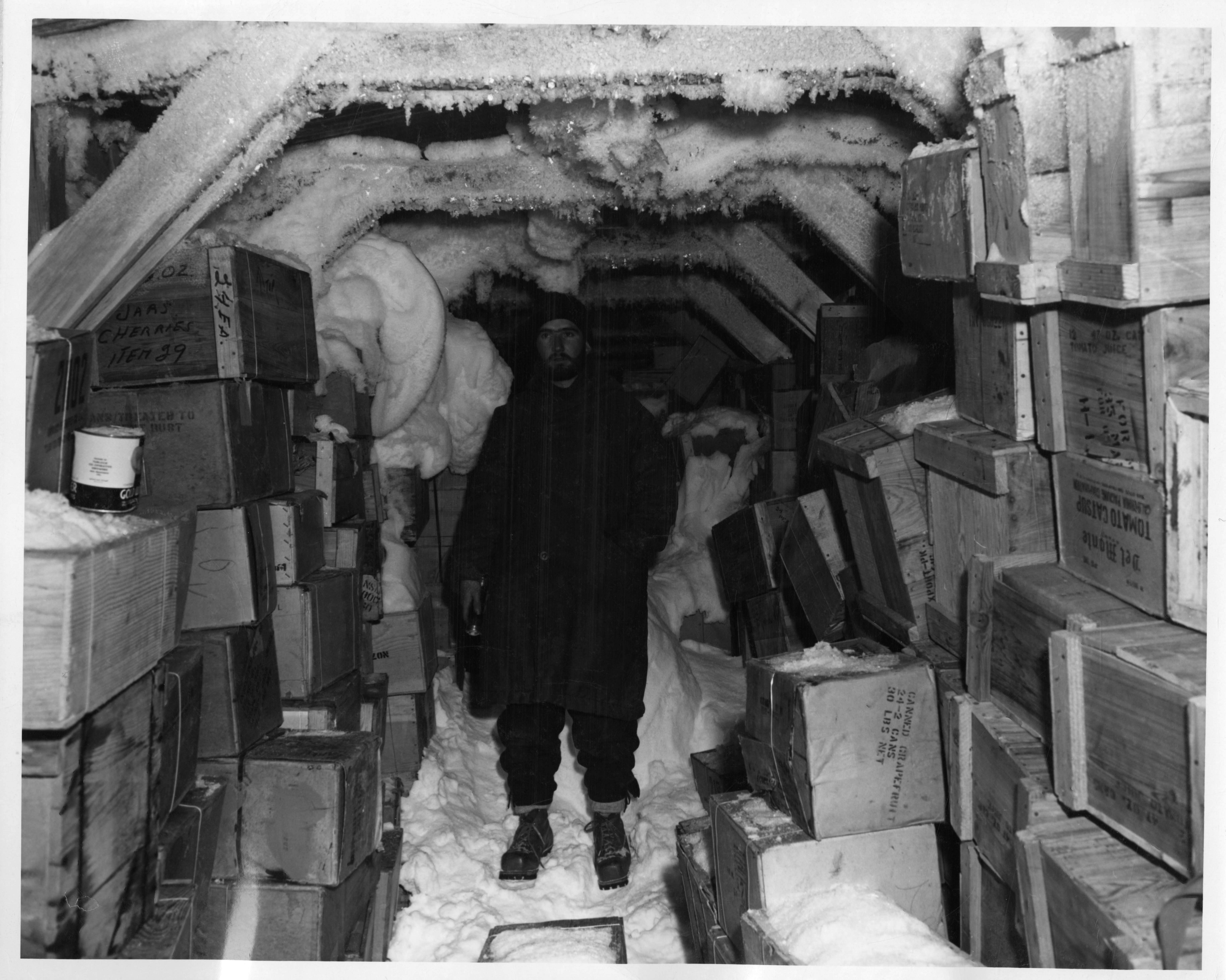 Standard number: SIA2010-0649 Physical description: Number of Images: 1 Color: Black and White; Size: 10w x 8h; Type of Image: Person, Candid; Medium: Photographic print Notes: Image located in Robert B. Klaverkamp's collection. Klaverkamp, an enlisted Naval Correspondent, participated in Operation Windmill. Malcolm Davis, zookeeper at the Smithsonian's National Zoological Park, was also on the expedition and was assigned to the Icebreaker USS Edisto (AG-89) with the express purpose of collecting penguins, other birds, and leopard seals Summary: Image of a member of Operation Windmill standing inside a building in Antarctica. The man is surrounded by supplies. Operation Windmill (1947-1948) was an expedition established by the Chief of Naval Operations to train personnel, test equipment, and reaffirm American interests in Antarctica Place: Antarctica Persistent URL:Link to data base record Repository:Smithsonian Archives - History Div View more collections from the Smithsonian Institution.